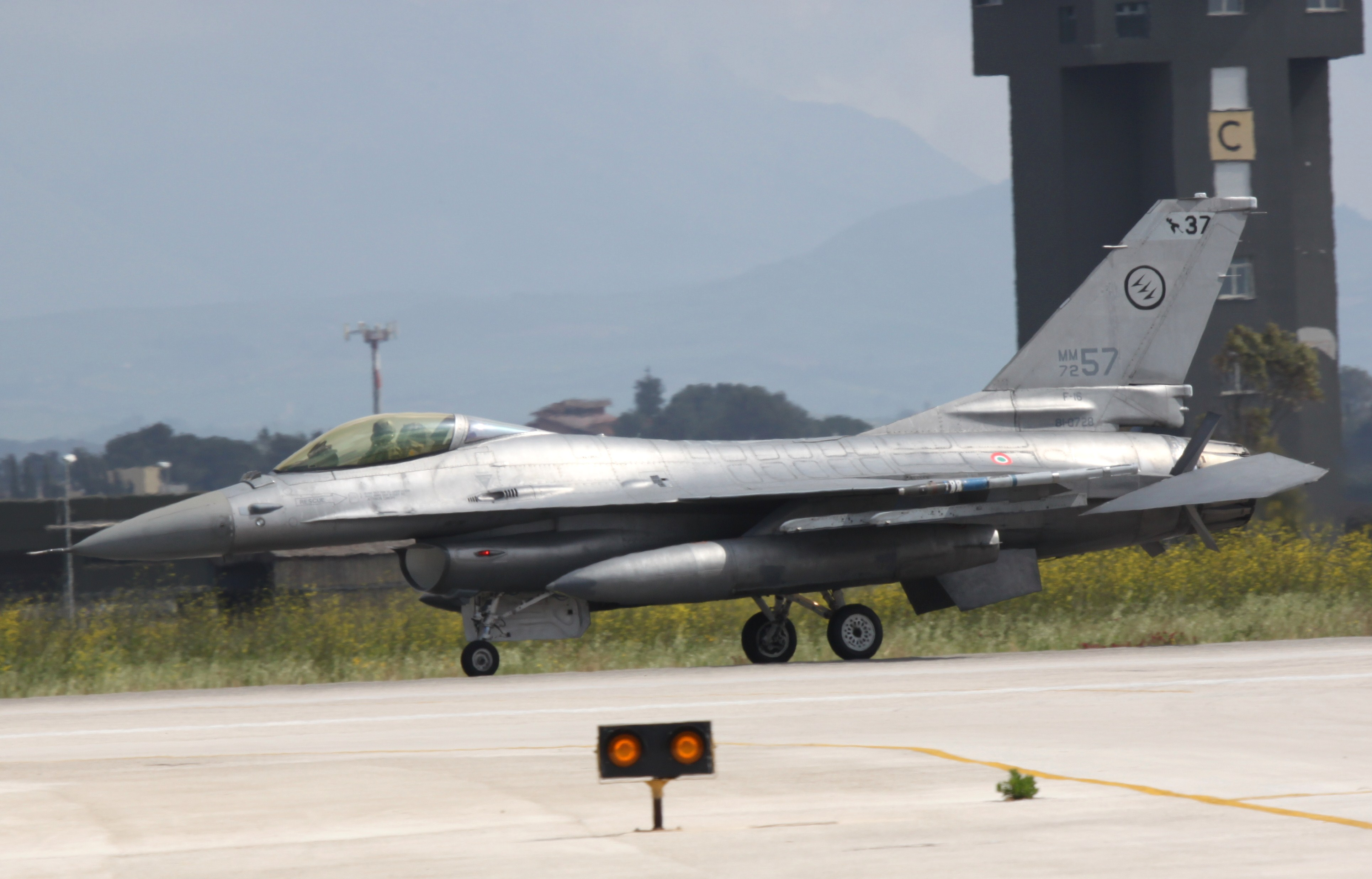 By the time of my visit the based F-16A-15(ADF)s of 37° Stormo had stopped supporting Unified Protector